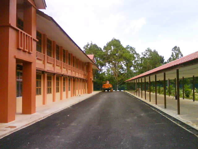 Skfs_baru